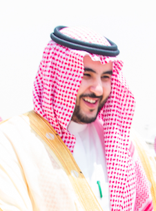 Khalid bin Salman